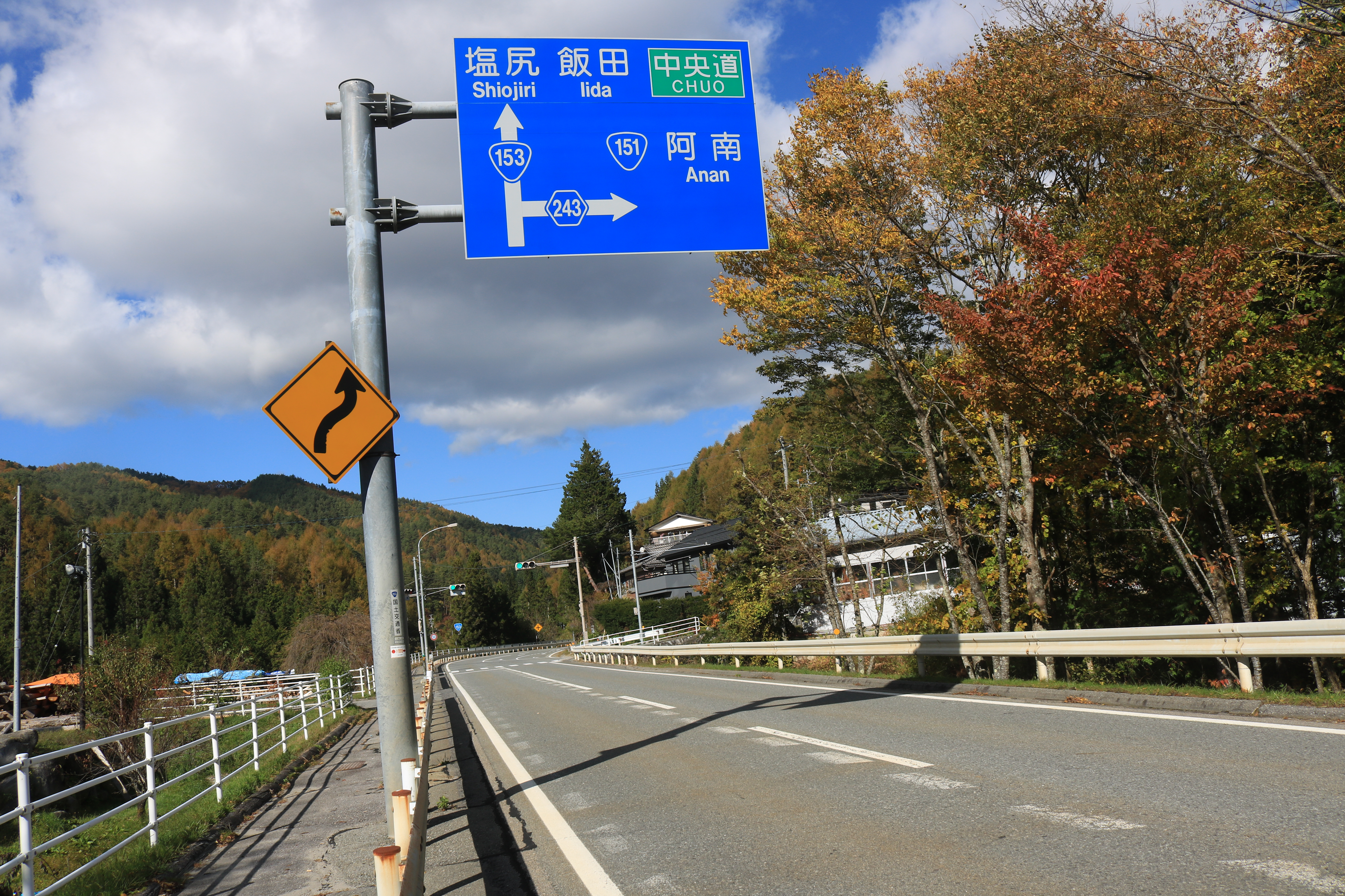 Route 153 and Nagano Prefectural Road Route 243 in Namiai, Achi, Nagano Prefecture, Japan.